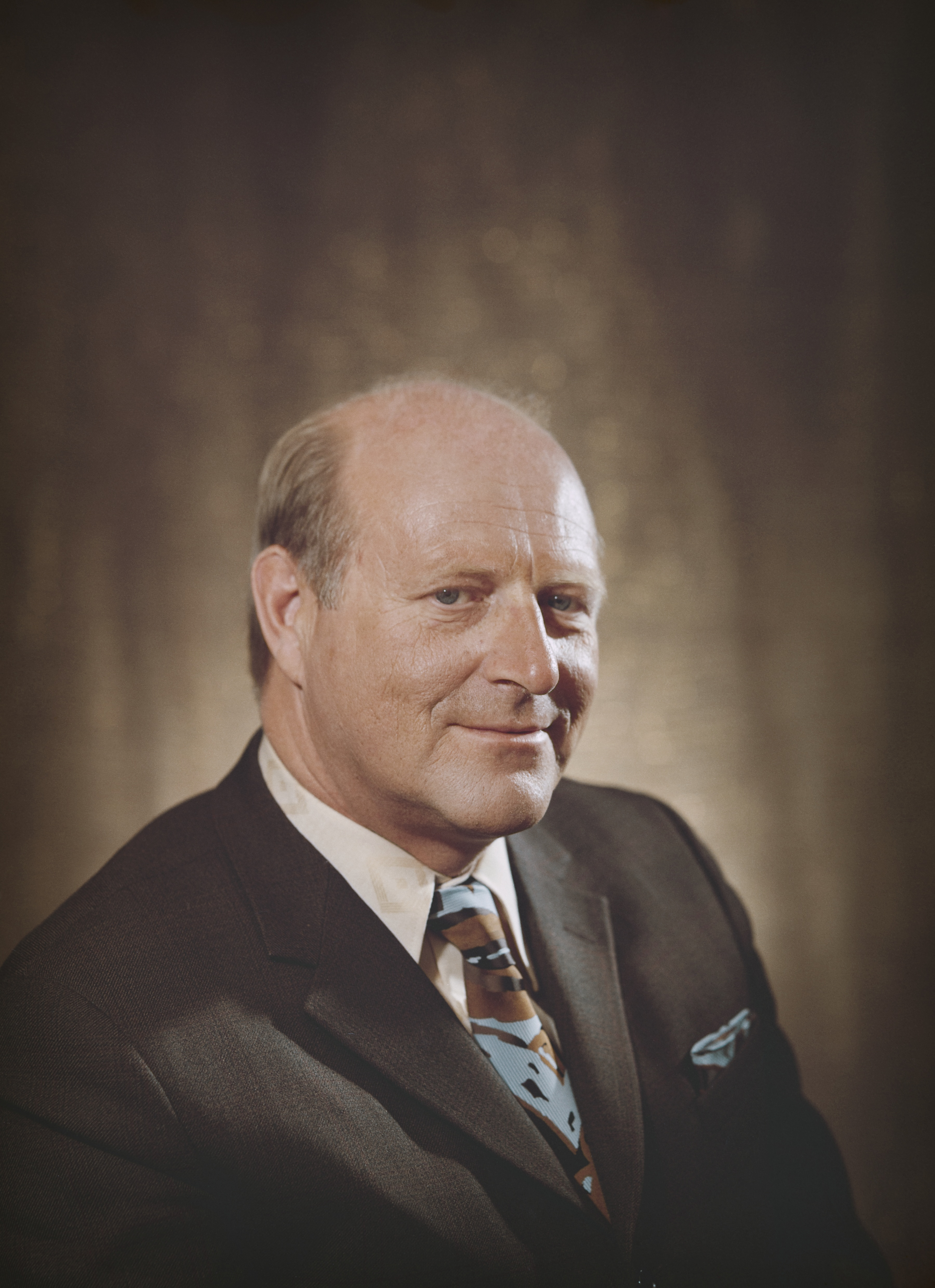 Photograph of the Finnish lawyer and minister Jorma Uitto (1921–2009).